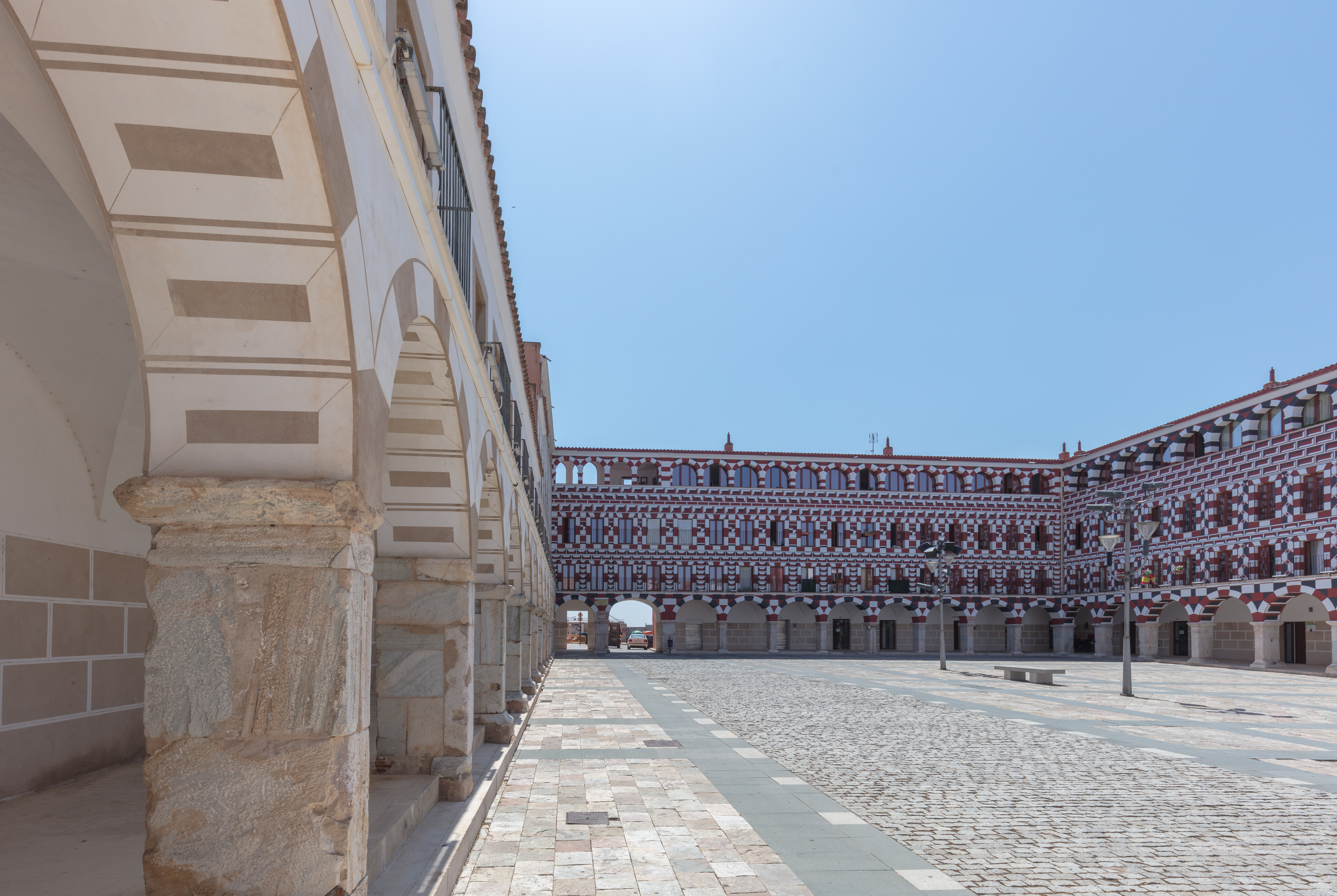 Plaza Alta, Badajoz, Spain